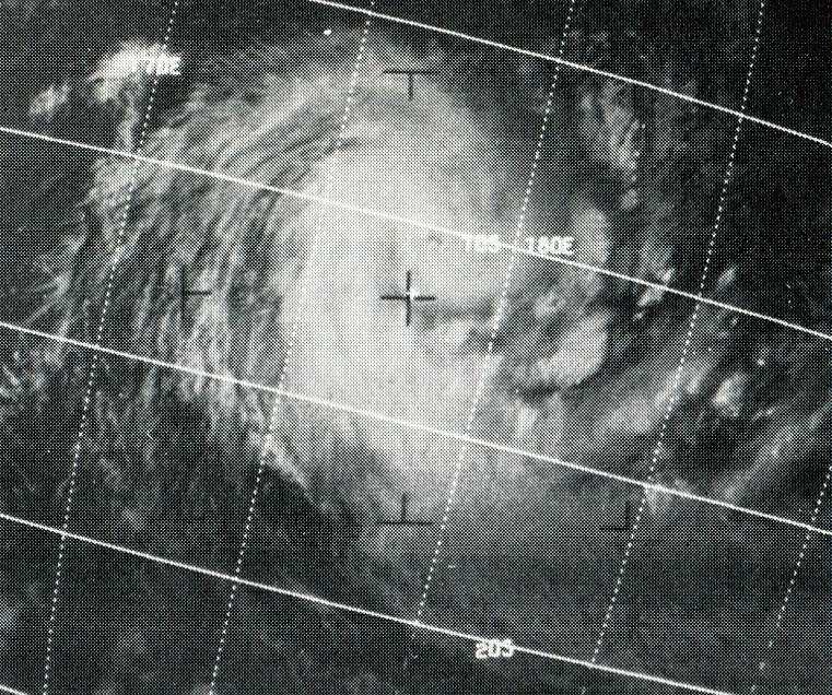 This ESSA 9 weather satellite image of Tropical Cyclone Bebe was taken on October 22, 1972 at 0332 UTC